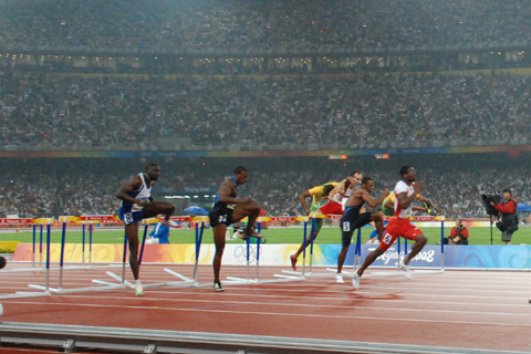 Dayron Robles of Cuba winning the 110 meters hurdles at the Beijing olympic games, august 21st 2008